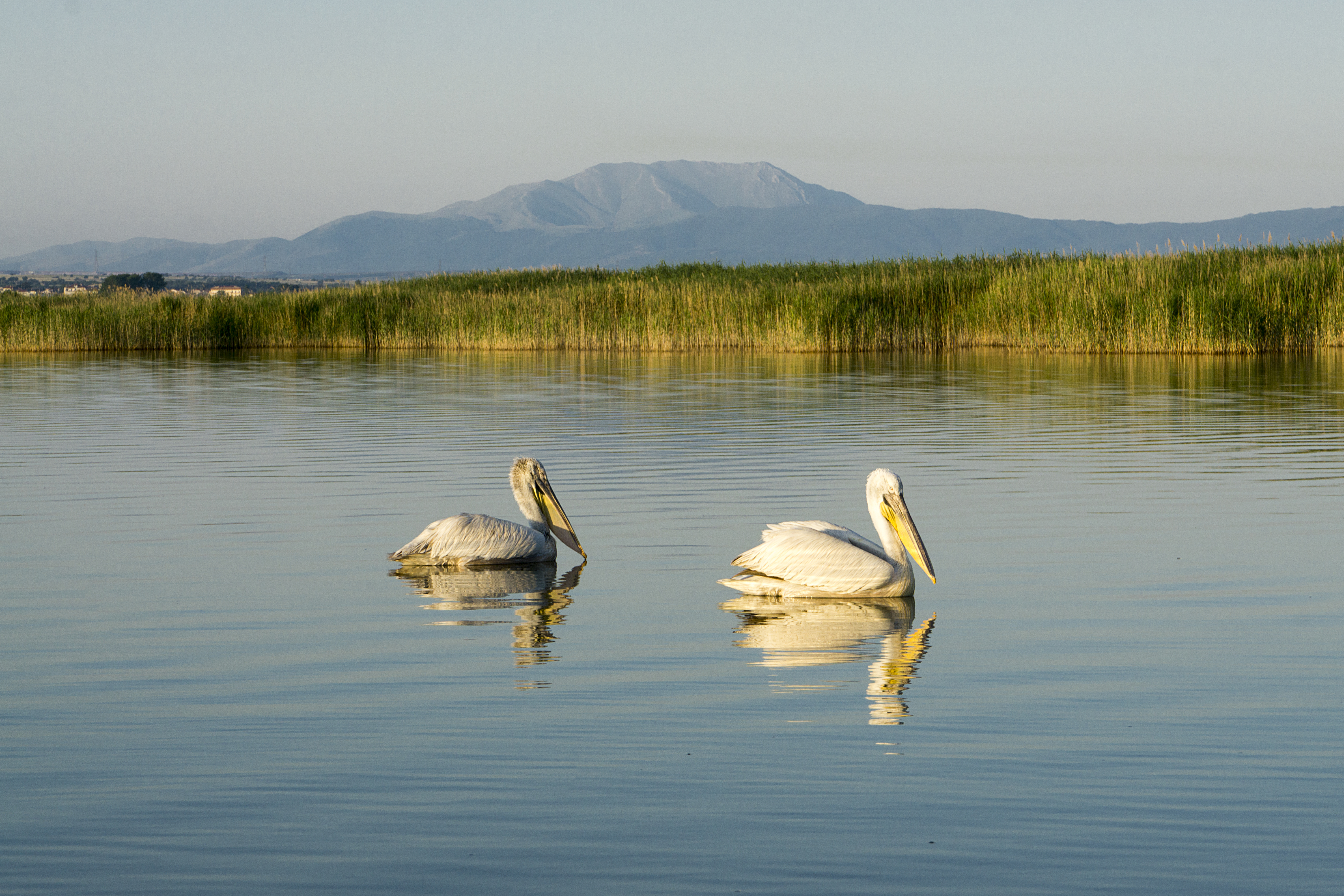 This is a photography of Natura 2000 protected area with ID GR1340007